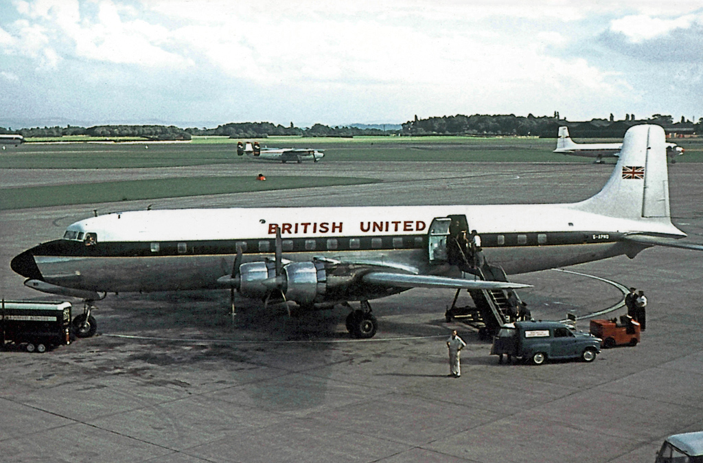 Douglas DC-6A G-APNO of British United Airways at Manchester Airport in 1964